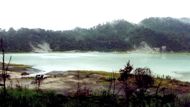 A monitoring team from the Volcanological Survey of Indonesia visits Talagabodas. Gunung Talagabodas stratovolcano lies immediately north of the more well-known Galunggung volcano. The crater of Talagabodas (which means "White Lake") contains this large sulfur-saturated lake. Fumaroles, mud pots, and a warm spring are found around the 400-500 m wide lake, which has an elevated temperature. Changes in lake color occurred in 1913 and 1921, and expanded solfataric activity was reported in 1927.